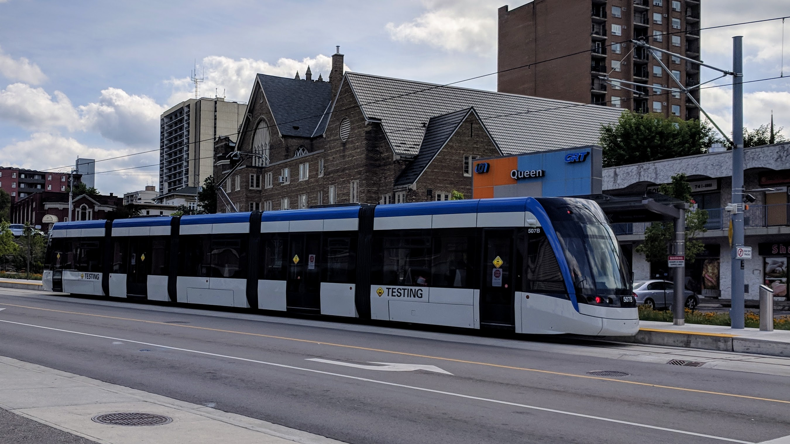 Bombardier Flexity Freedom, Ion unit 507. Photographed at Queen Station during system testing.